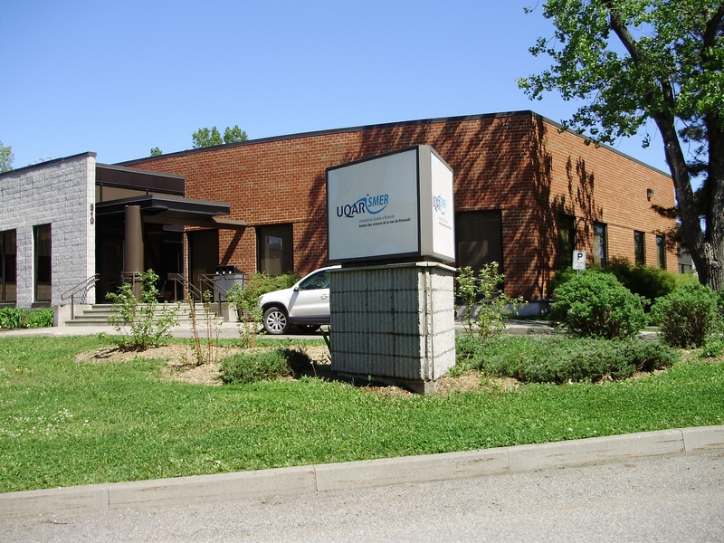 UQAR / ISMER : Main building at Rimouski, Quebec, Canada.